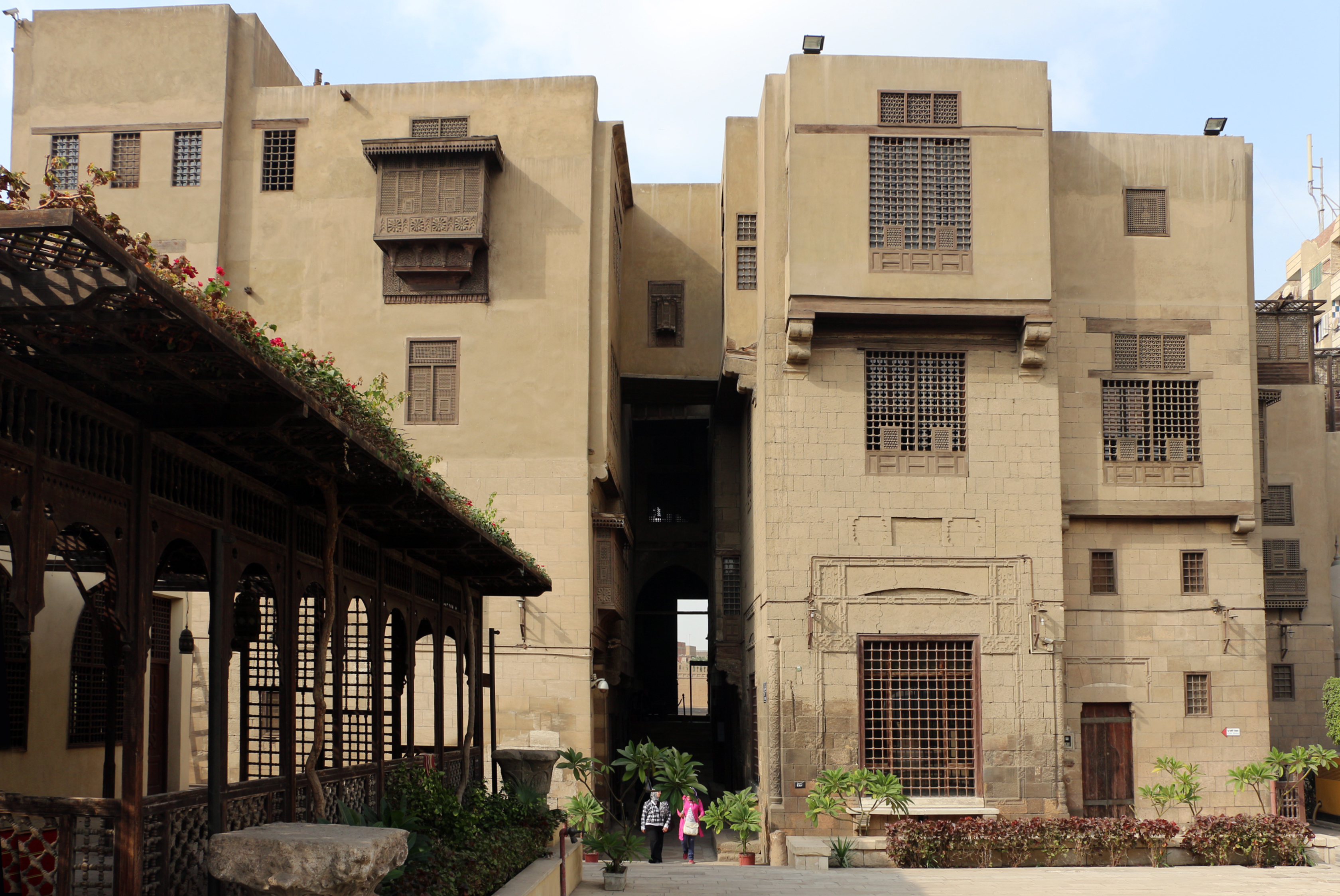 Gayer-Anderson Museum